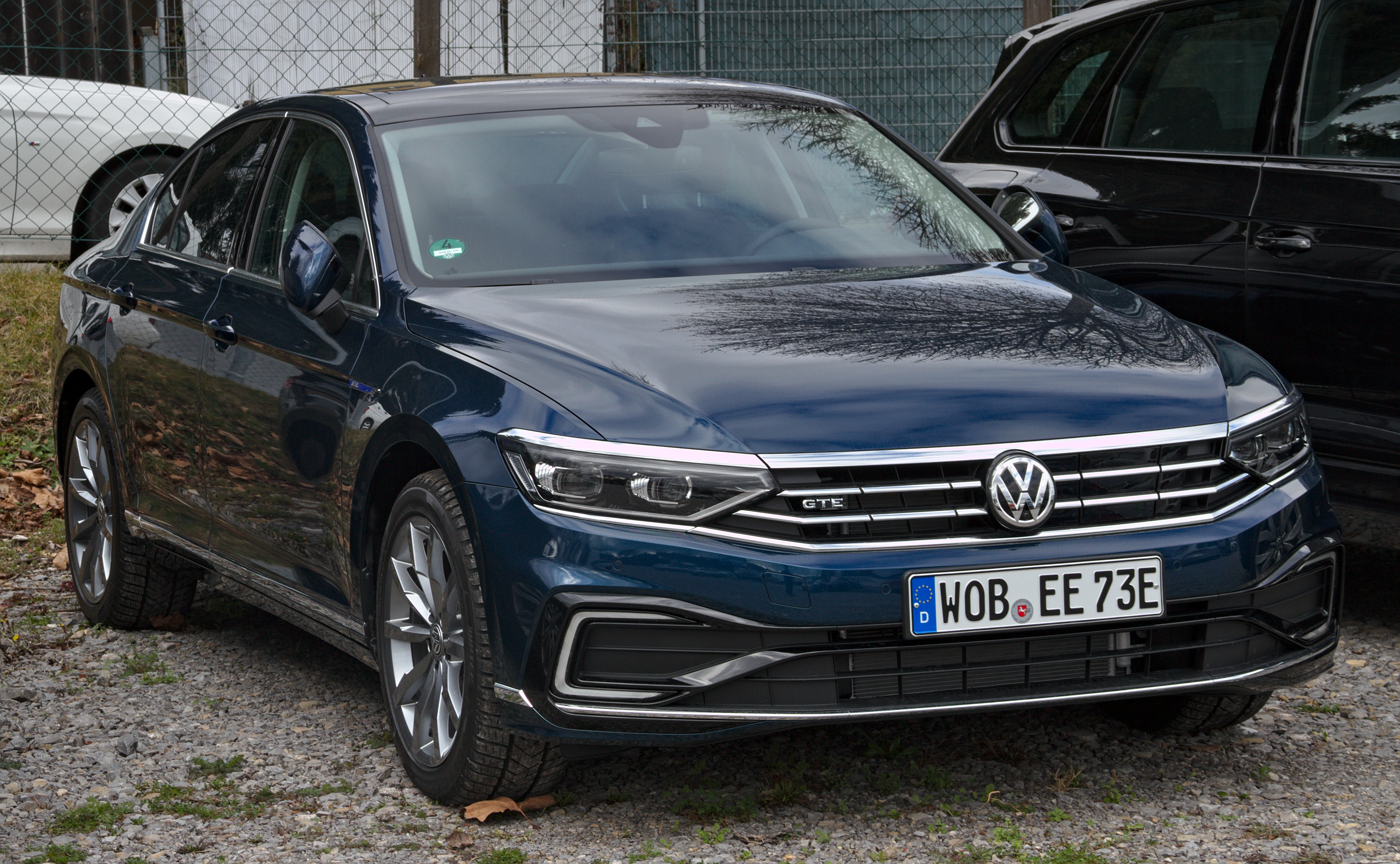 Volkswagen_Passat_B8_GTE_(2019) in Stuttgart-Vaihingen